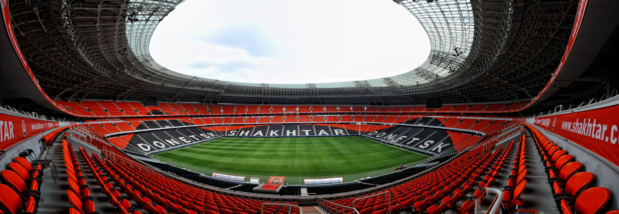 Donbass Arena in Donetsk, Ukraine